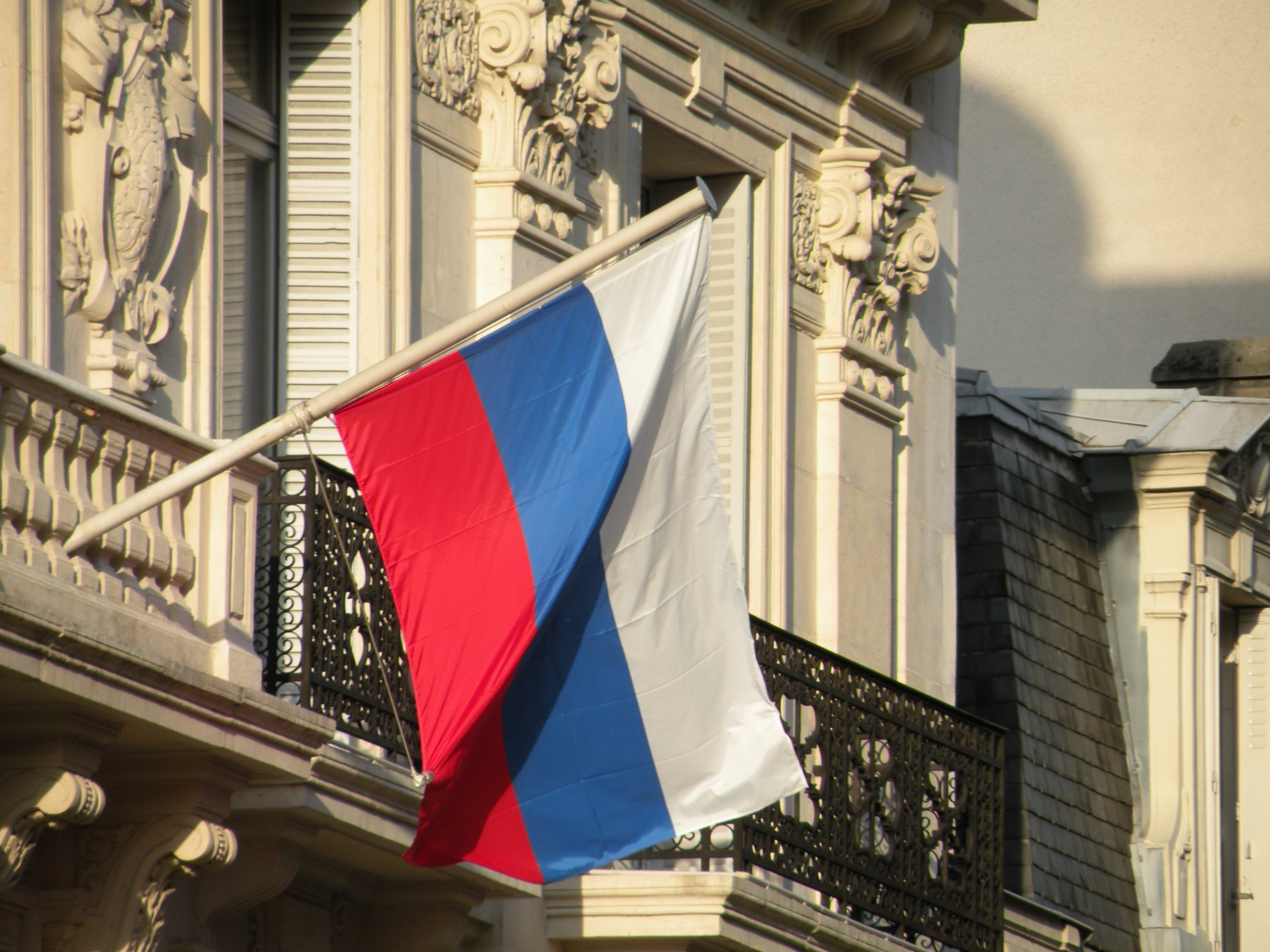 Flag of Russia on the Russian delegation to UNESCO.